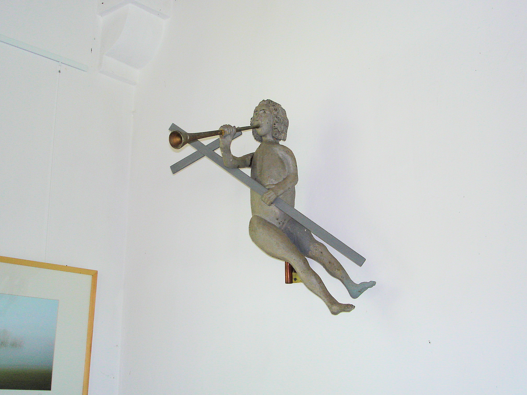 Sculpture in the church in Krümmel, Mecklenburg, Germany